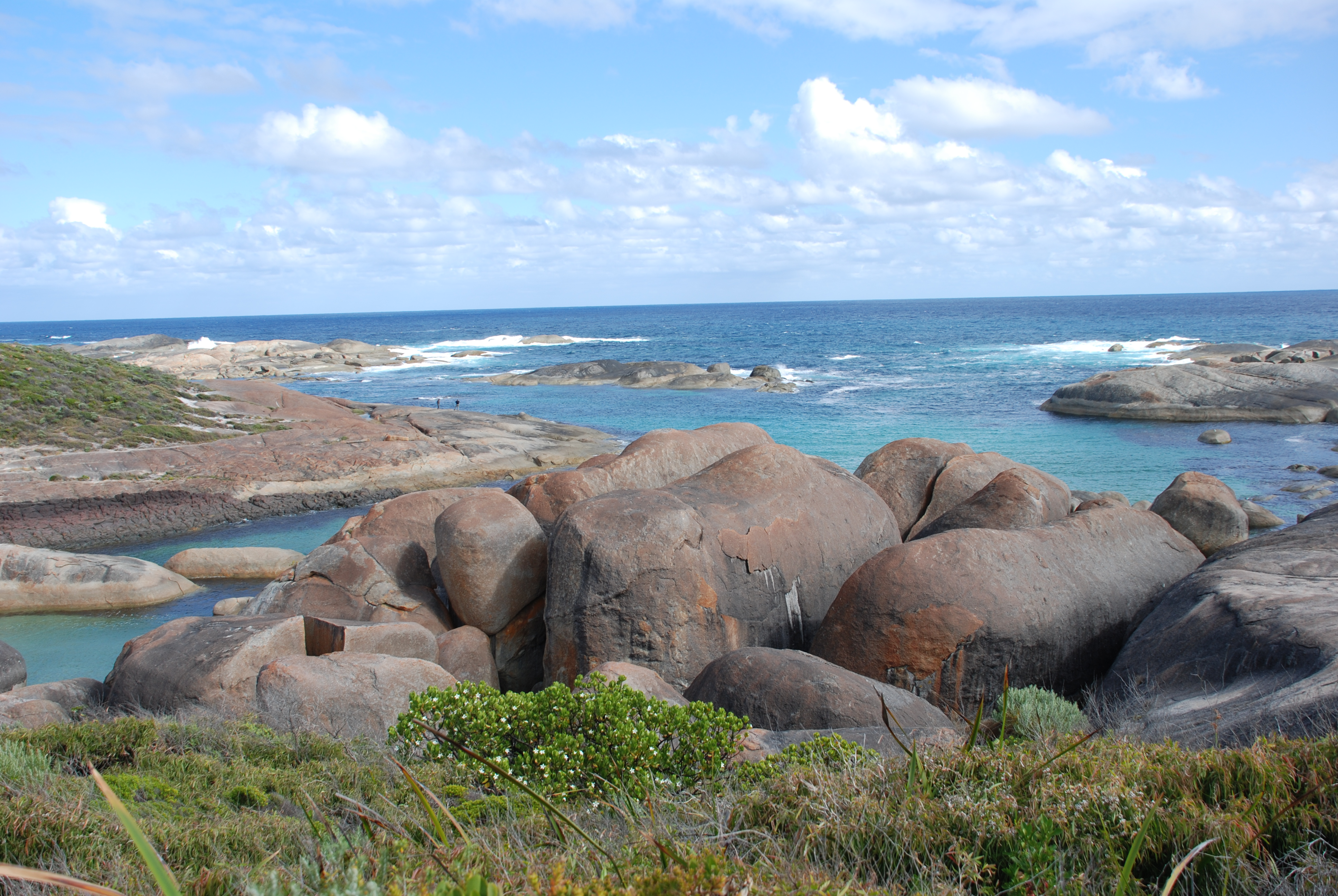 Elephant Rocks in William Bay National Park, Western Australia. Taken in December 2009, on partially clouded and windy day.